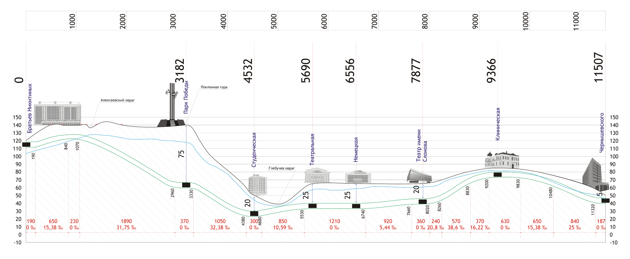 Drawing of Yubileyno-Degtyarnaya line (planned line of Saratov rapid transport).